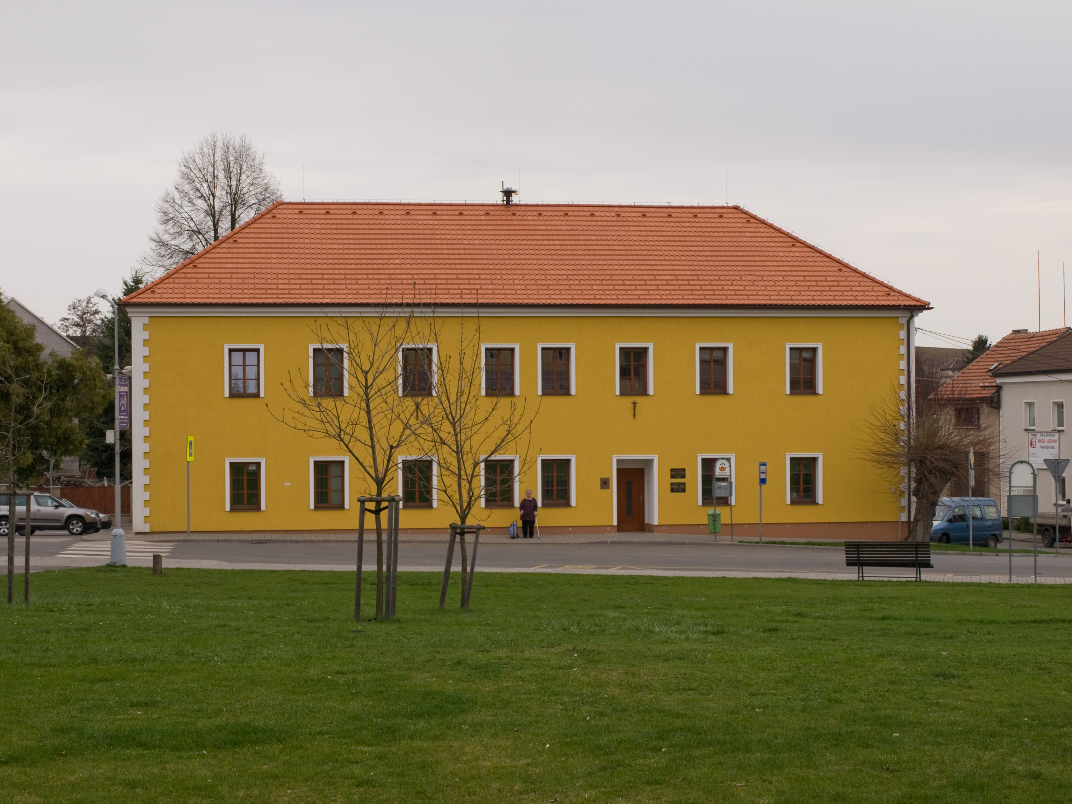 Square, Praskolesy, Beroun District, Central Bohemian Region, Czech Republic